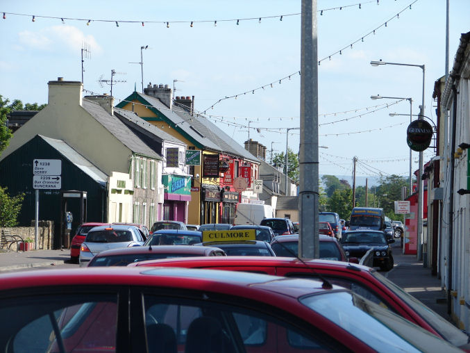 The main street in Muff Village, County Donegal, Ireland